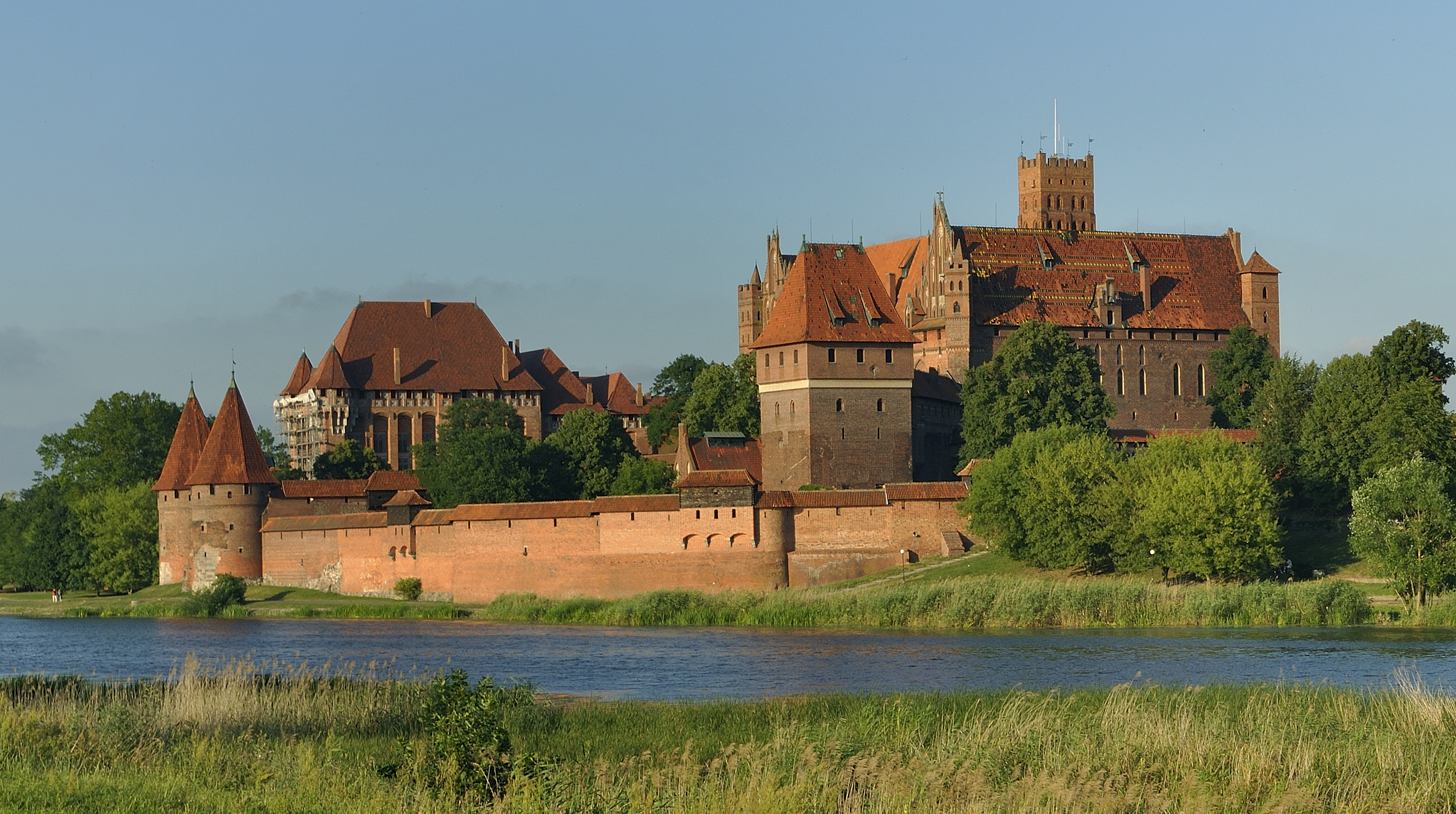 Picture taken in Malborg after Wikimania 2010 conference. Panorama of Malbork Castle.